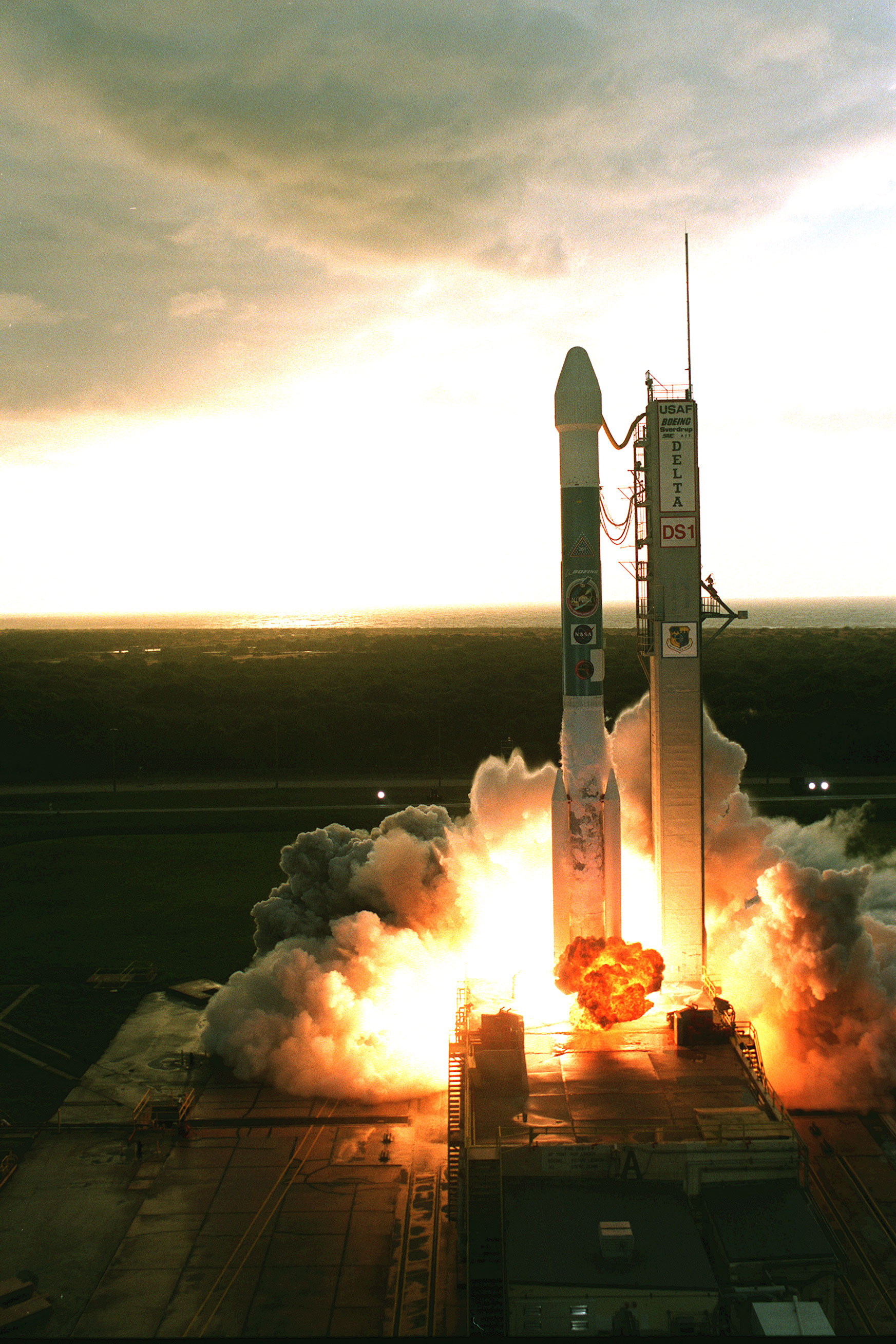 Lighting up the launch pad below, a Boeing Delta II (7326) rocket is silhouetted in the morning light as it propels Deep Space 1 into the sky after liftoff from Launch Complex 17A, Cape Canaveral Air Station. The first flight in NASA's New Millennium Program, the spacecraft is designed to validate 12 new technologies for scientific space missions of the next century, including the ion propulsion engine. Propelled by the gas xenon, the engine is being flight-tested for future deep space and Earth-orbiting missions. Other onboard experiments include software that tracks celestial bodies so the spacecraft can make its own navigation decisions without the intervention of ground controllers. Deep Space 1 will complete most of its mission objectives within the first two months, but will also do a flyby of a near-Earth asteroid, 1992 KD, in July 1999.